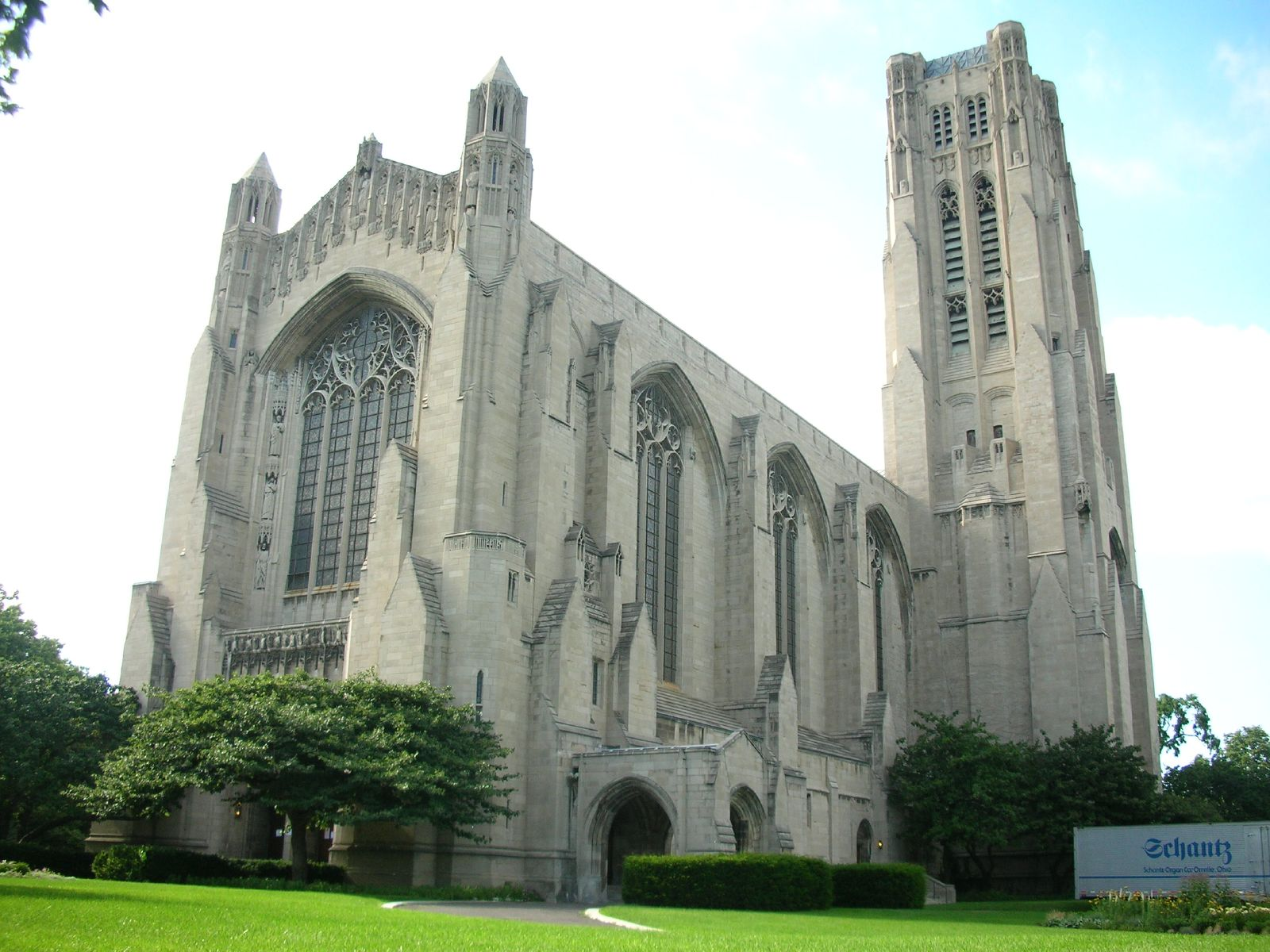 A photograph of the entire Rockefeller Chapel on a sunny day in June.